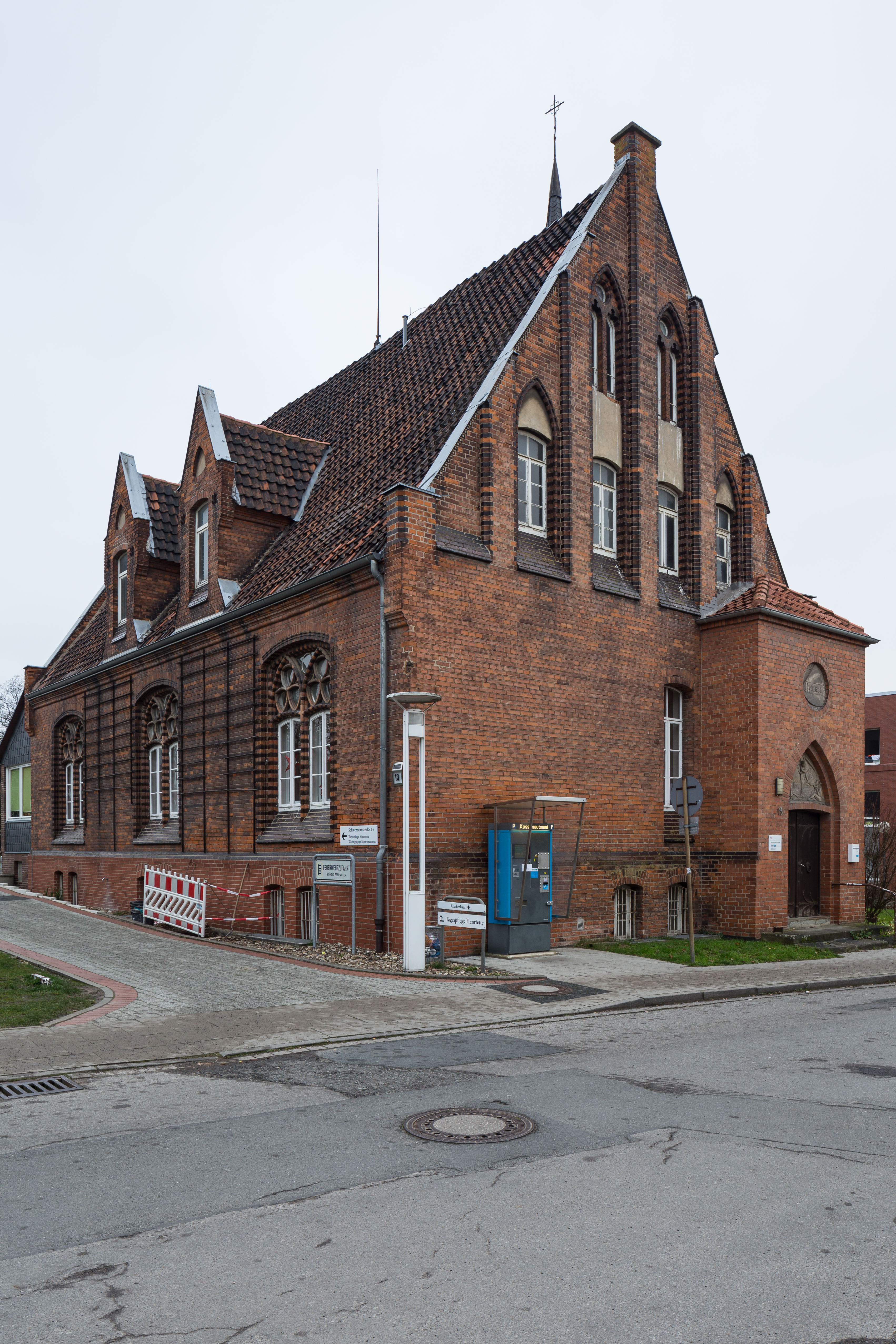 Chapel Alt-Bethesda, part of the care home located at Schwemannstrasse in Kirchrode quarter of Hannover, Germany.